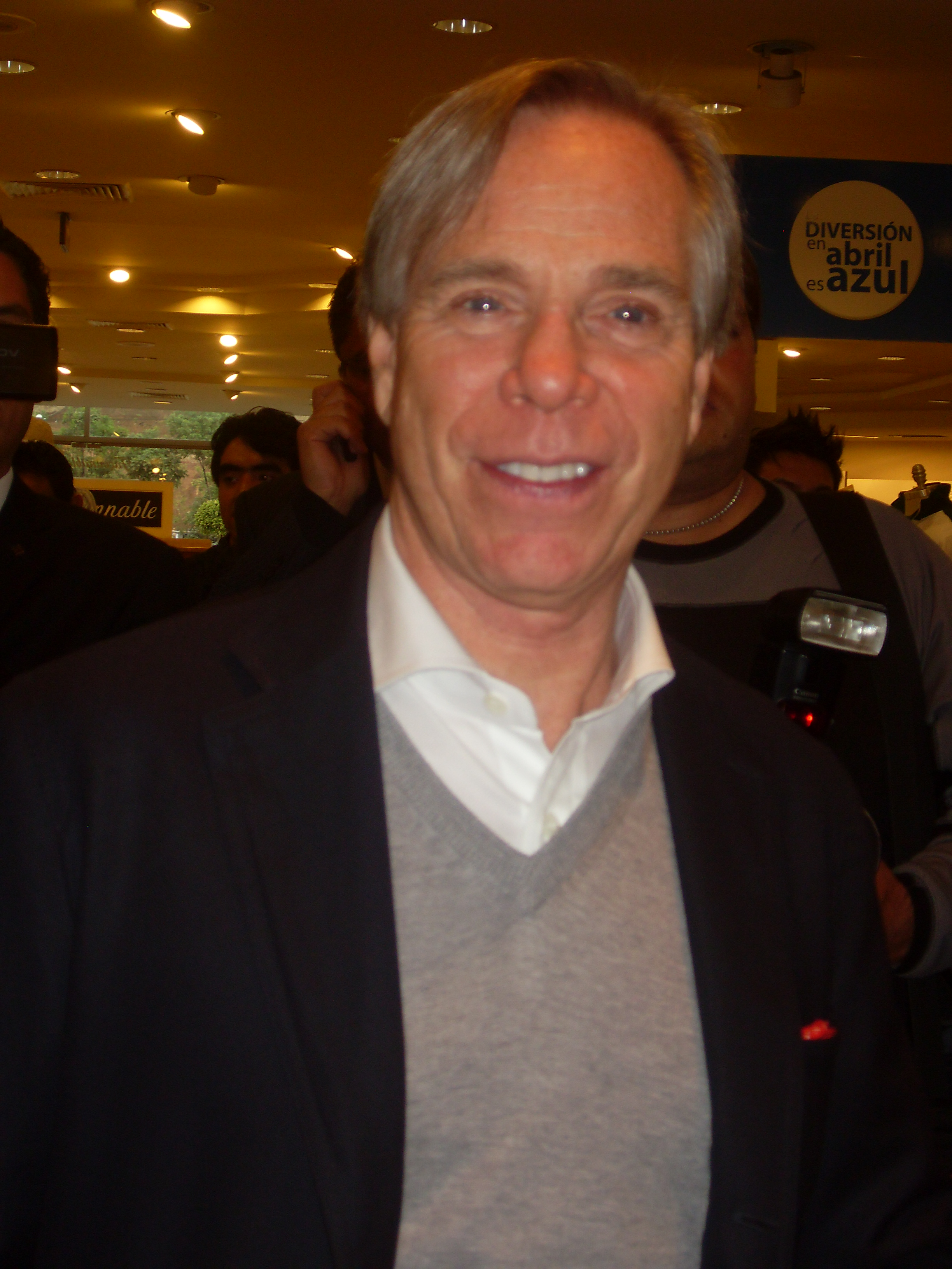 Photo of the American designer Tommy Hilfiger